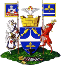 Coat of Arms of the city and municipality of Mladenovac, Serbia